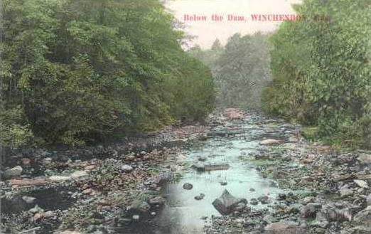 Below the Dam, Winchendon, MA; from a 1909 postcard.